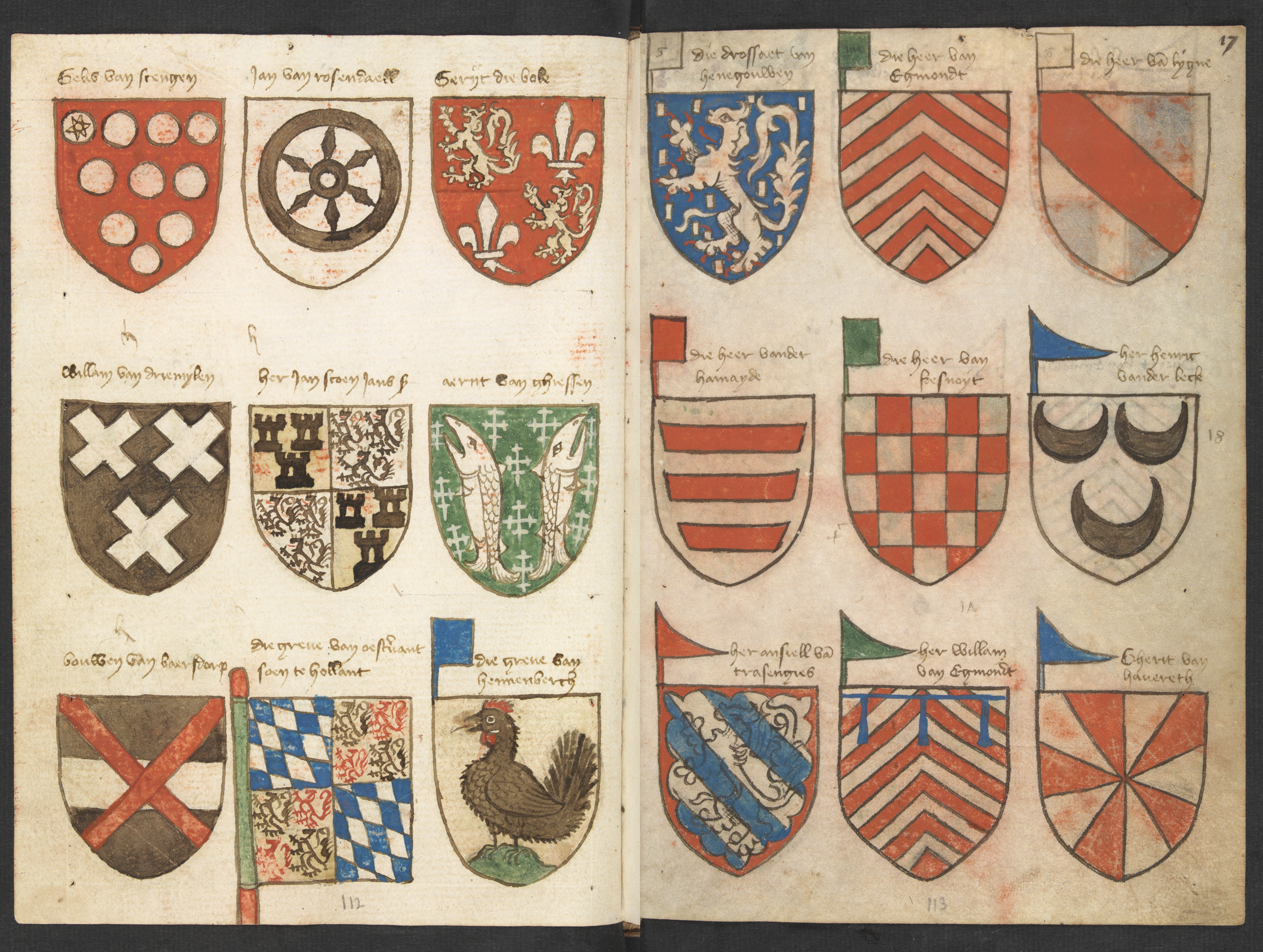 Lefthand side folio 016v; righthand side folio 017r from the Beyeren armorial / Wapenboek Beyeren